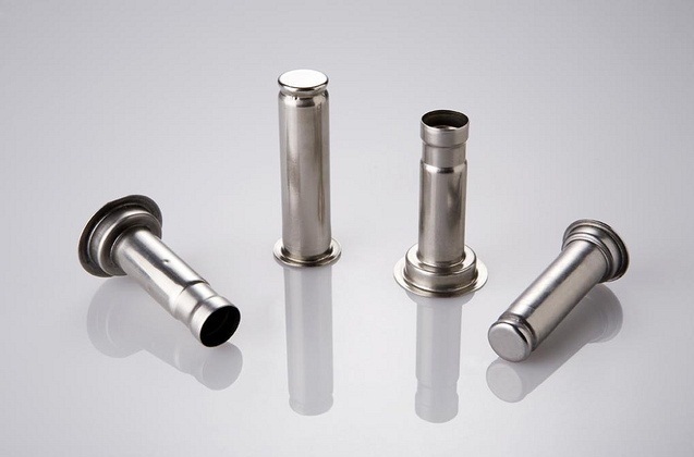 produced by Pressteck S.p.A Italy